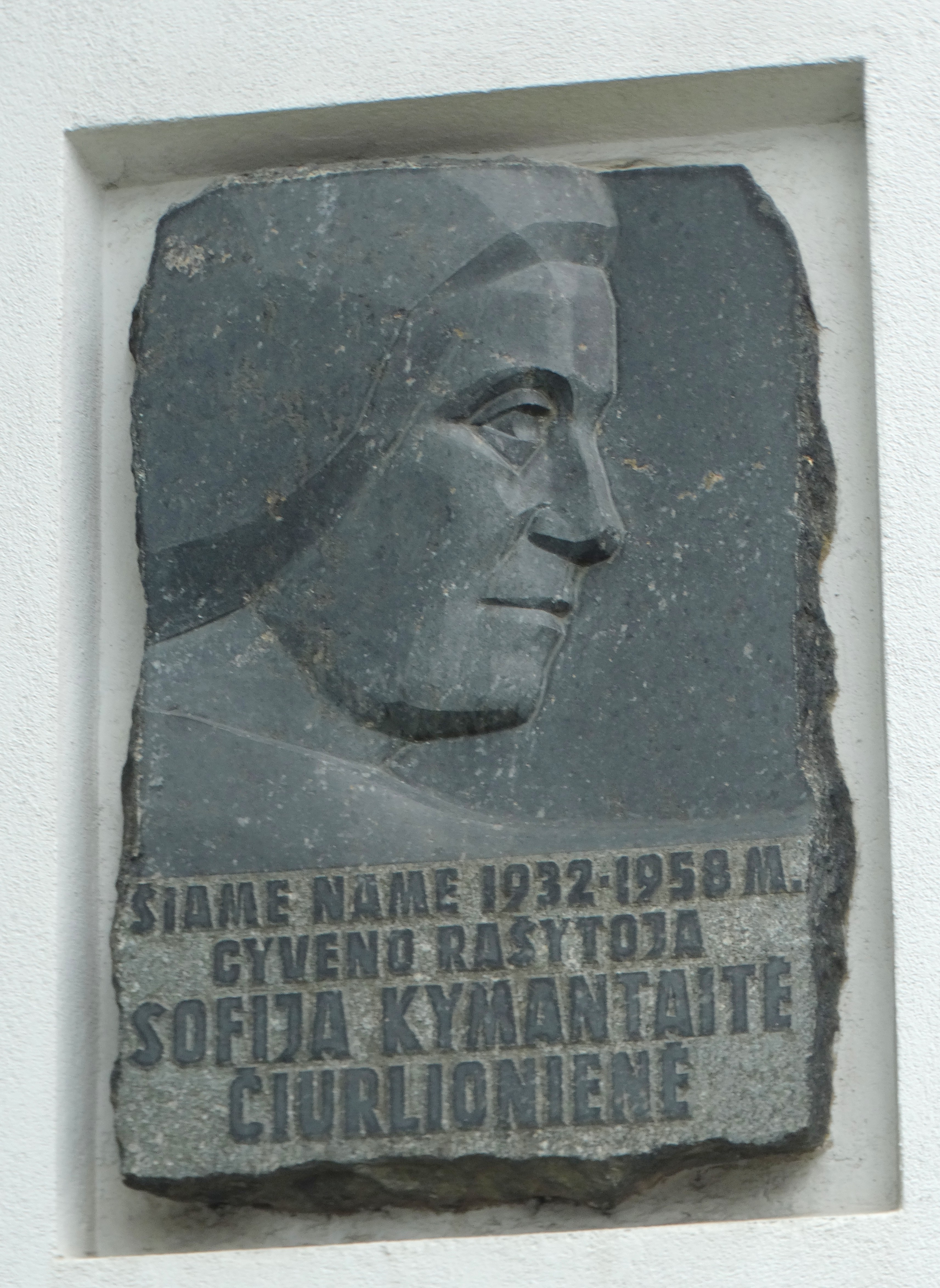 Memorial board to S. Kymantaitė-Čiurlionienė. Kaunas, Lithuania